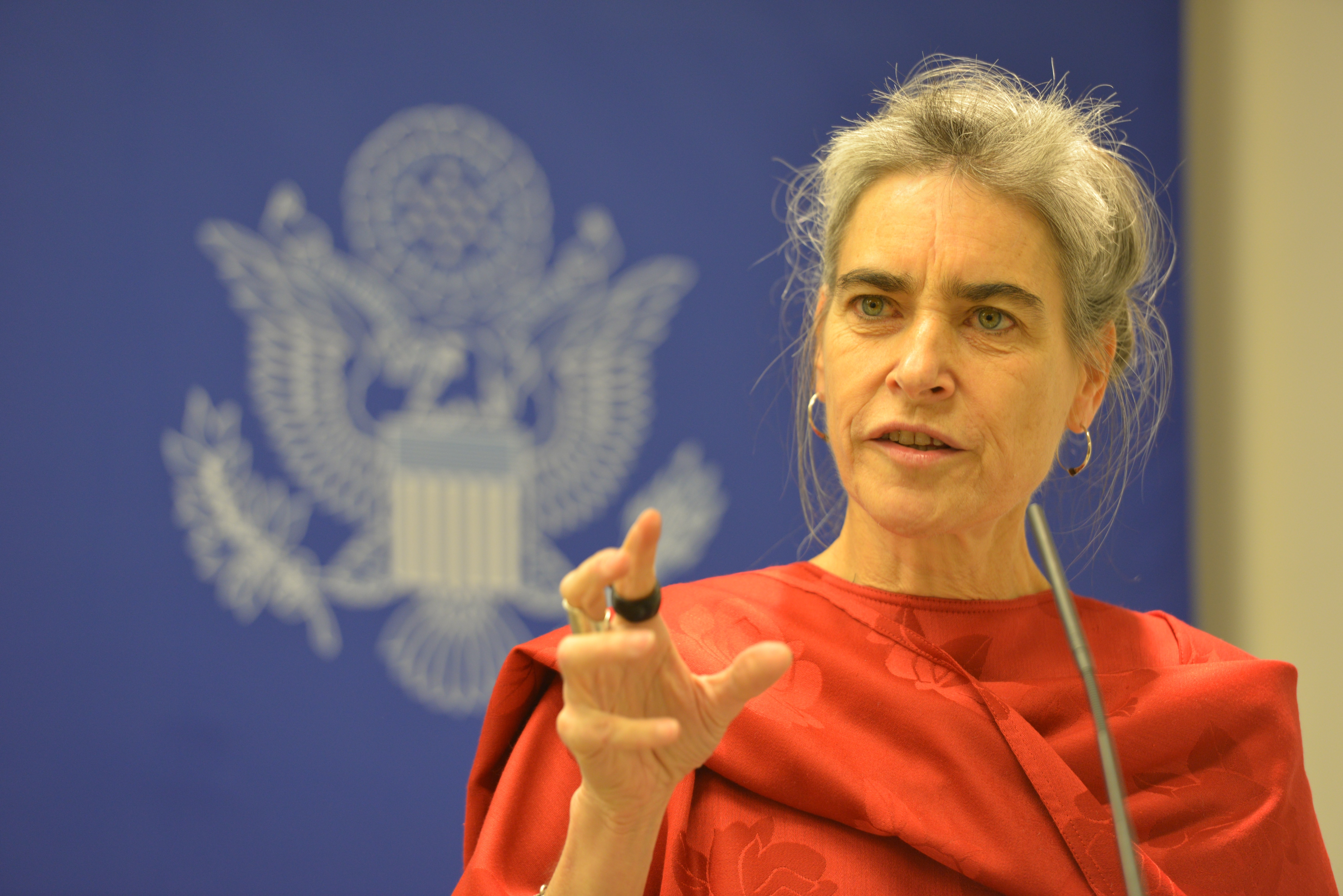 Sarah Chayes, anti-corruption expert, held a talk on corruption at the Amerika Haus in Vienna, Austria, on December 9, 2015.